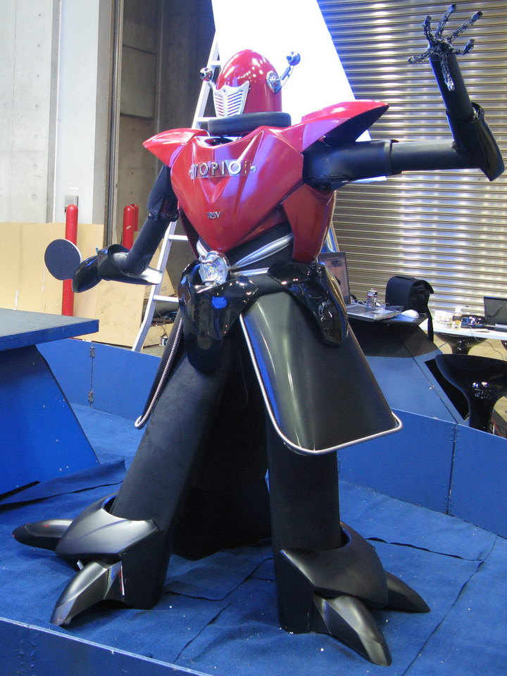 TOPIO 1.0 - TOSY Ping Pong Playing Robot version 1 is playing table tennis at IREX 2007 - Tokyo International Robot Exhibition